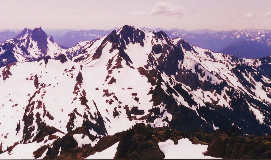 Mount Skokomish seen from Mount Stone. Olympic Mountains, Washington state